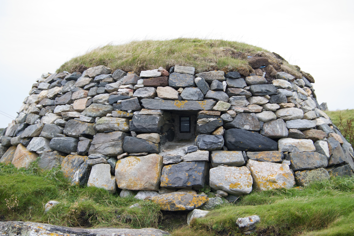 A camera obscura made by Chris Drury, twenty minute walk from Lochmaddy